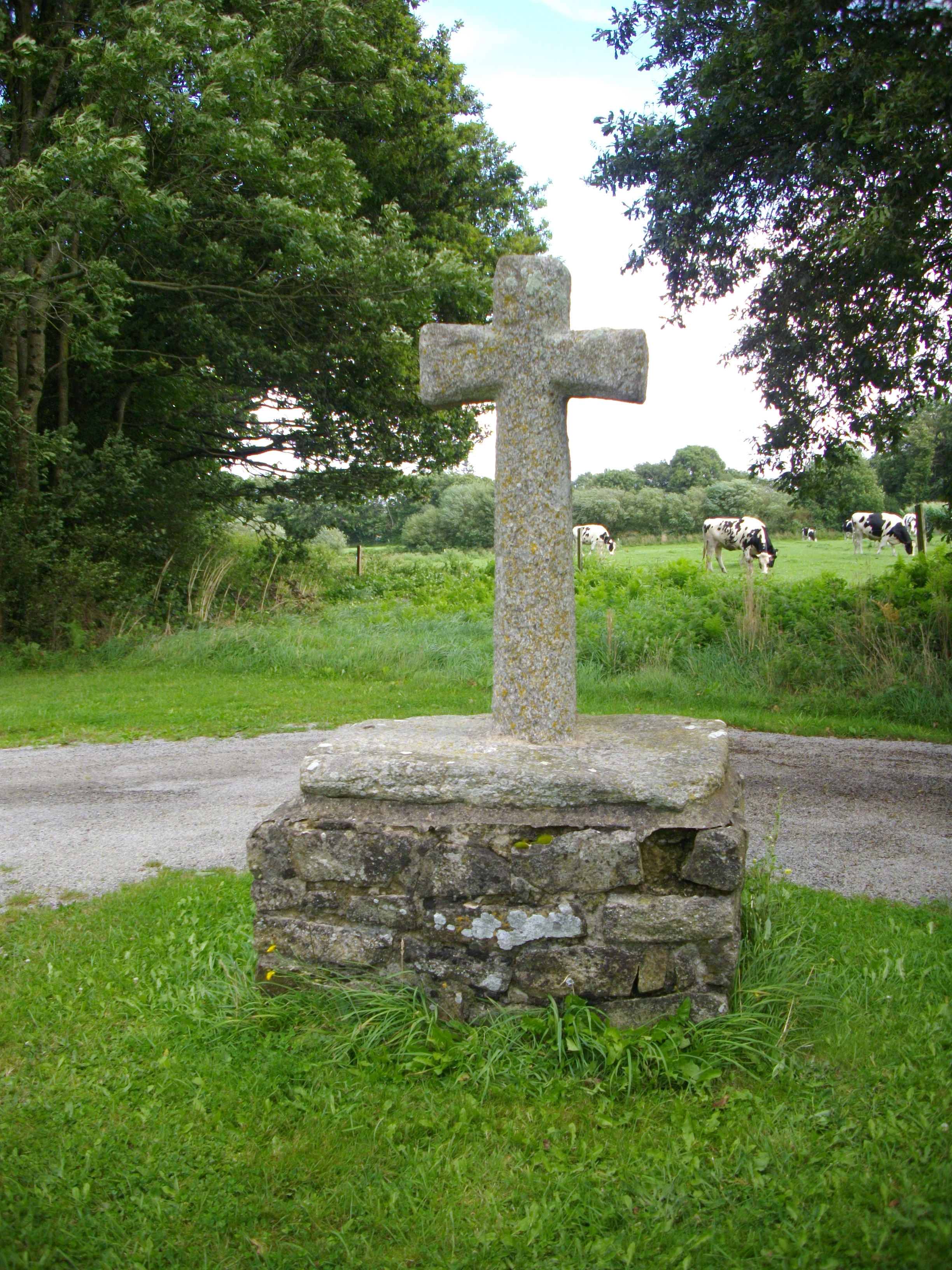 Cross near the Saint Clement chapel in Elven (Morbihan, France) .